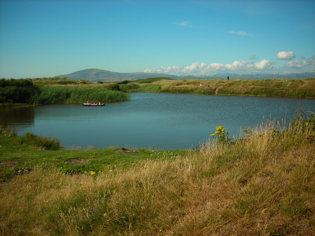 North Walney Nature Reserve Ponds like this are more than just fun for messing about in boats, they provide a habitat for the local population of natterjack toads.